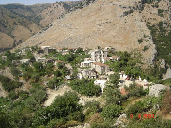 Fshati Tatzat